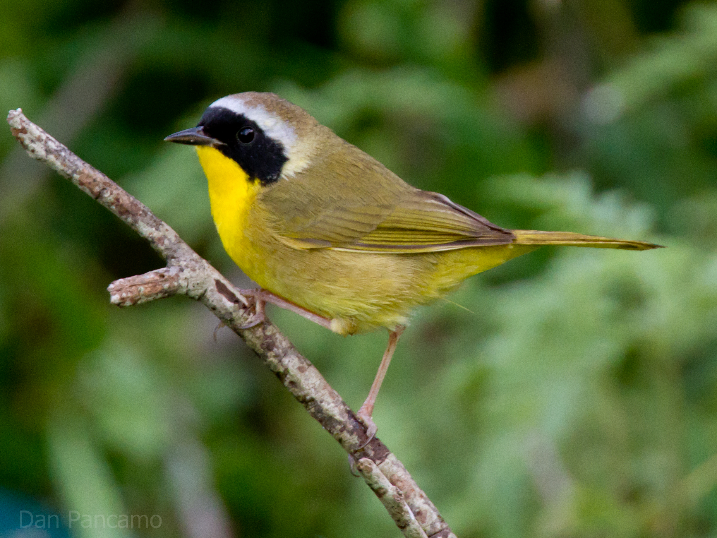 Common Yellowthroat